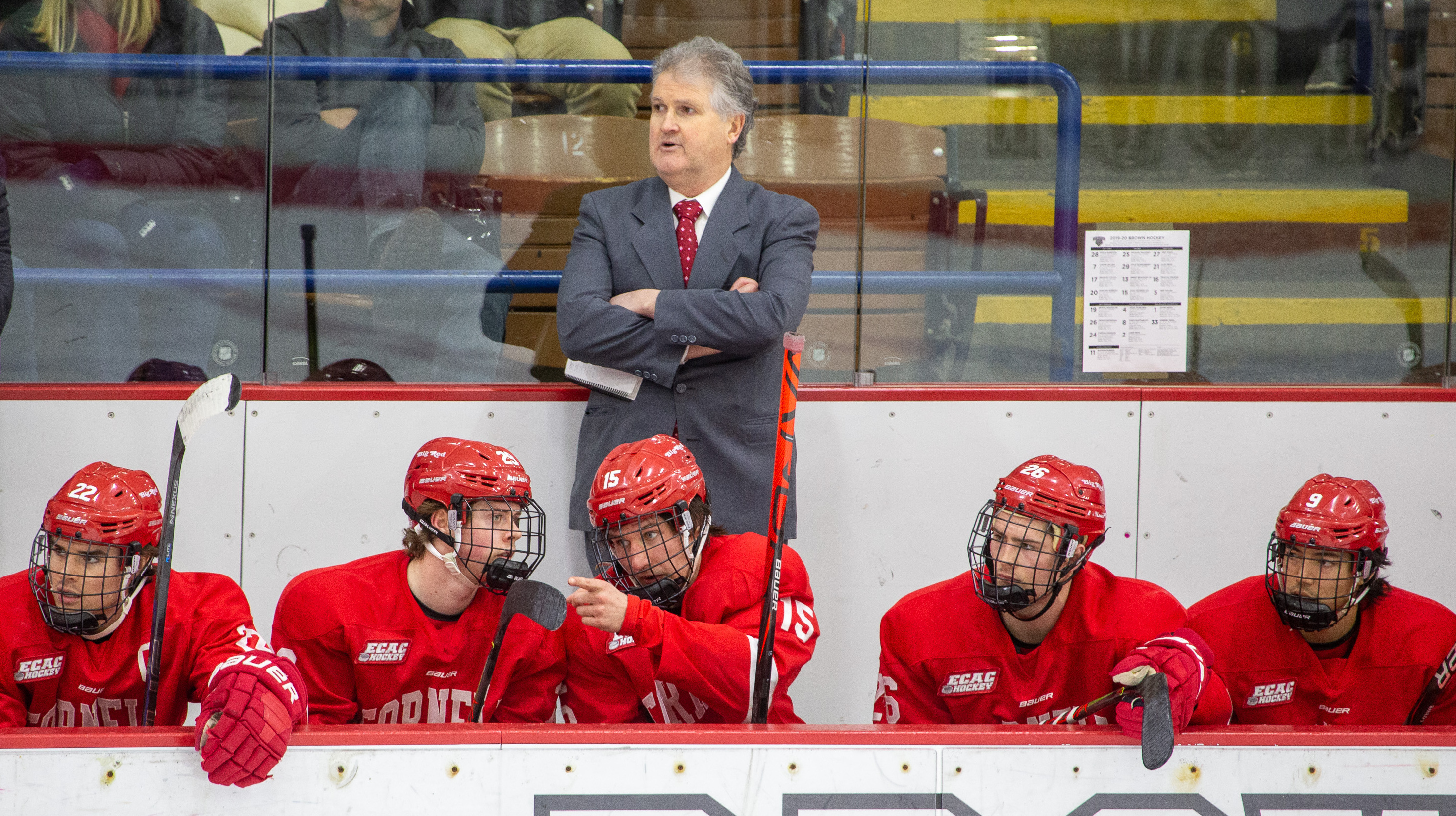 Cornell vs Brown ice hockey, Meehan Auditorium, Feb 22, 2020. Cornell won, 3-0.